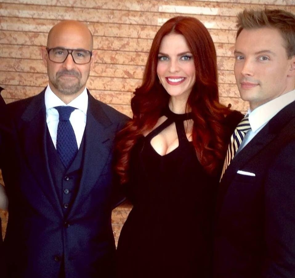 Stanley Tucci with Melanie Specht